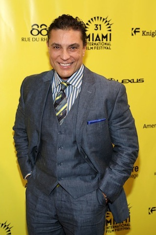 Actor/executive producer Osvaldo Rios at the 2014 Miami International Film Festival premiere of "Elsa & Fred" Photo by Alberto E. Tamargo/Sipa